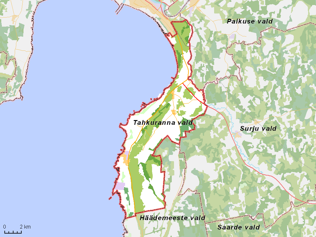 Map of municipality in Estonia